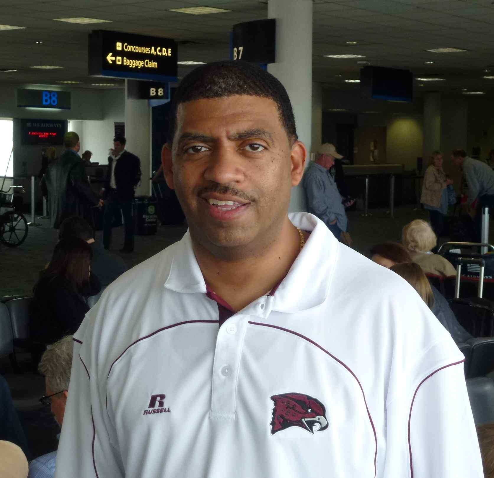 Fred Batchelor - head coach University of Maryland Eastern Shore women's basketball. Taken in Charlotte (North Carolina) airport